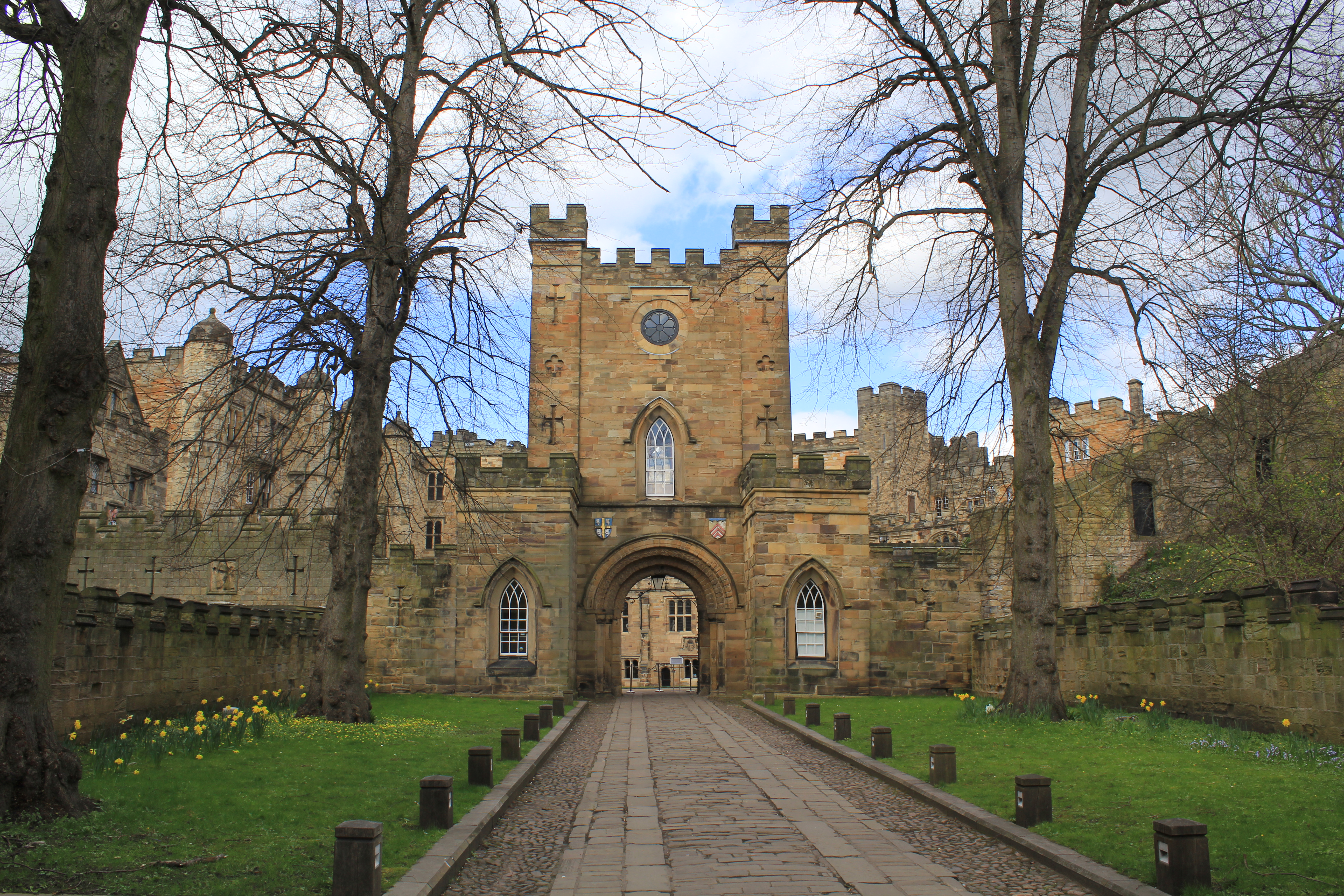 Durham Castle, April 2017 (2) This file was generated using WMUK's equipment.